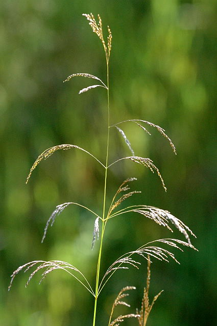 Picture taken in Commanster, Belgian High Ardennes . Species: Deschampsia cespitosa